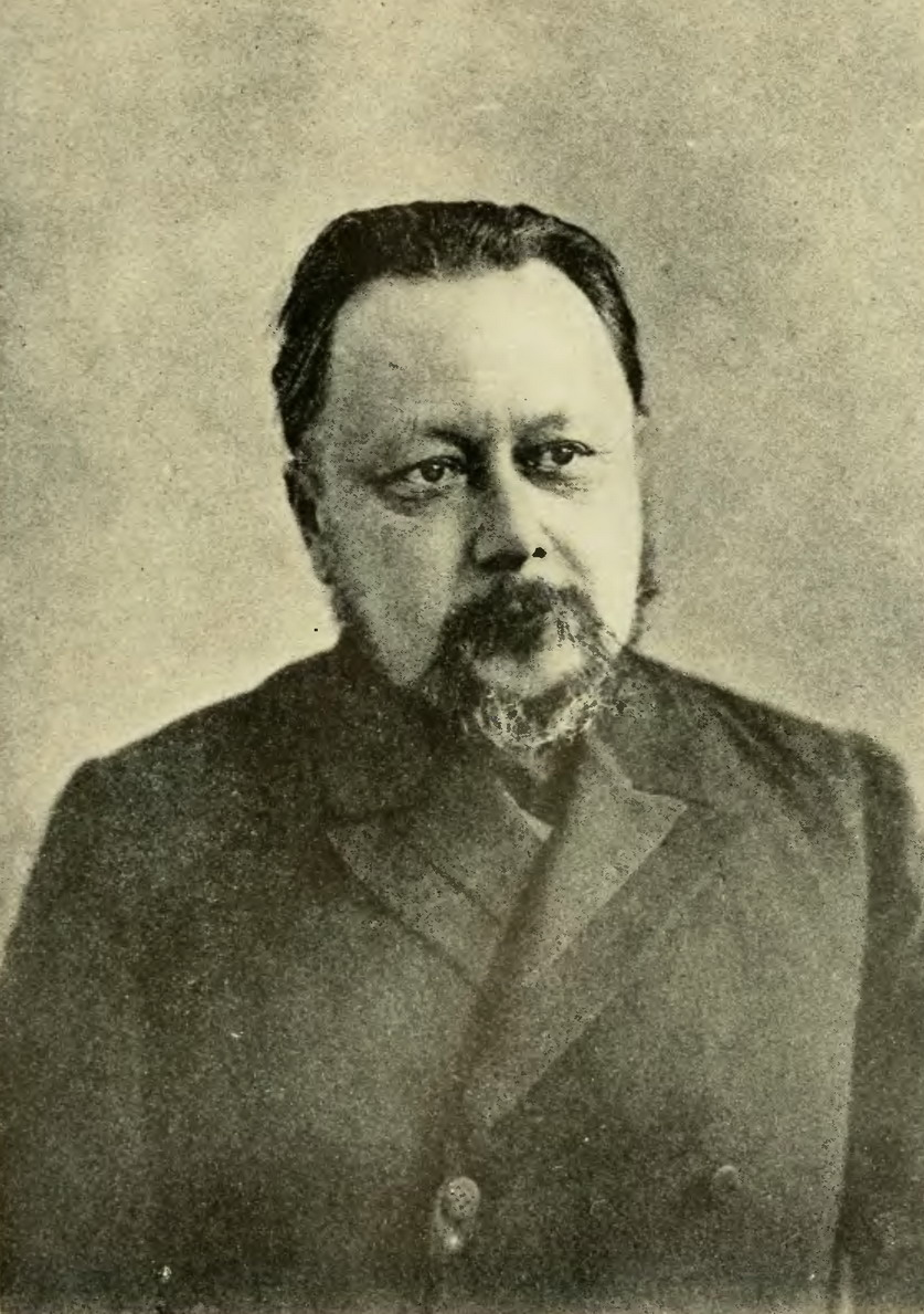 Nikolai Schepkin